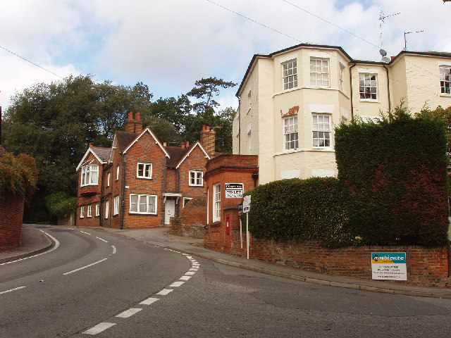 Taplow village centre. Houses on Cliveden Road, at the junction with Rectory Road